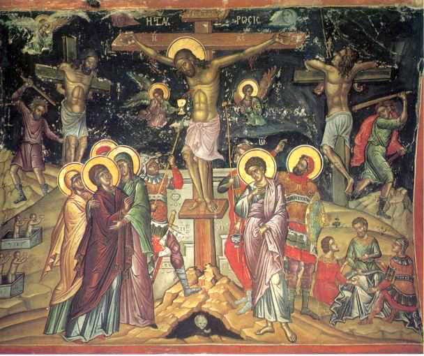 The Crucifixion